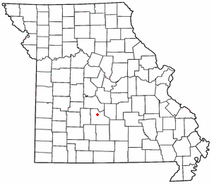 Modified from a map on Wikipedia.